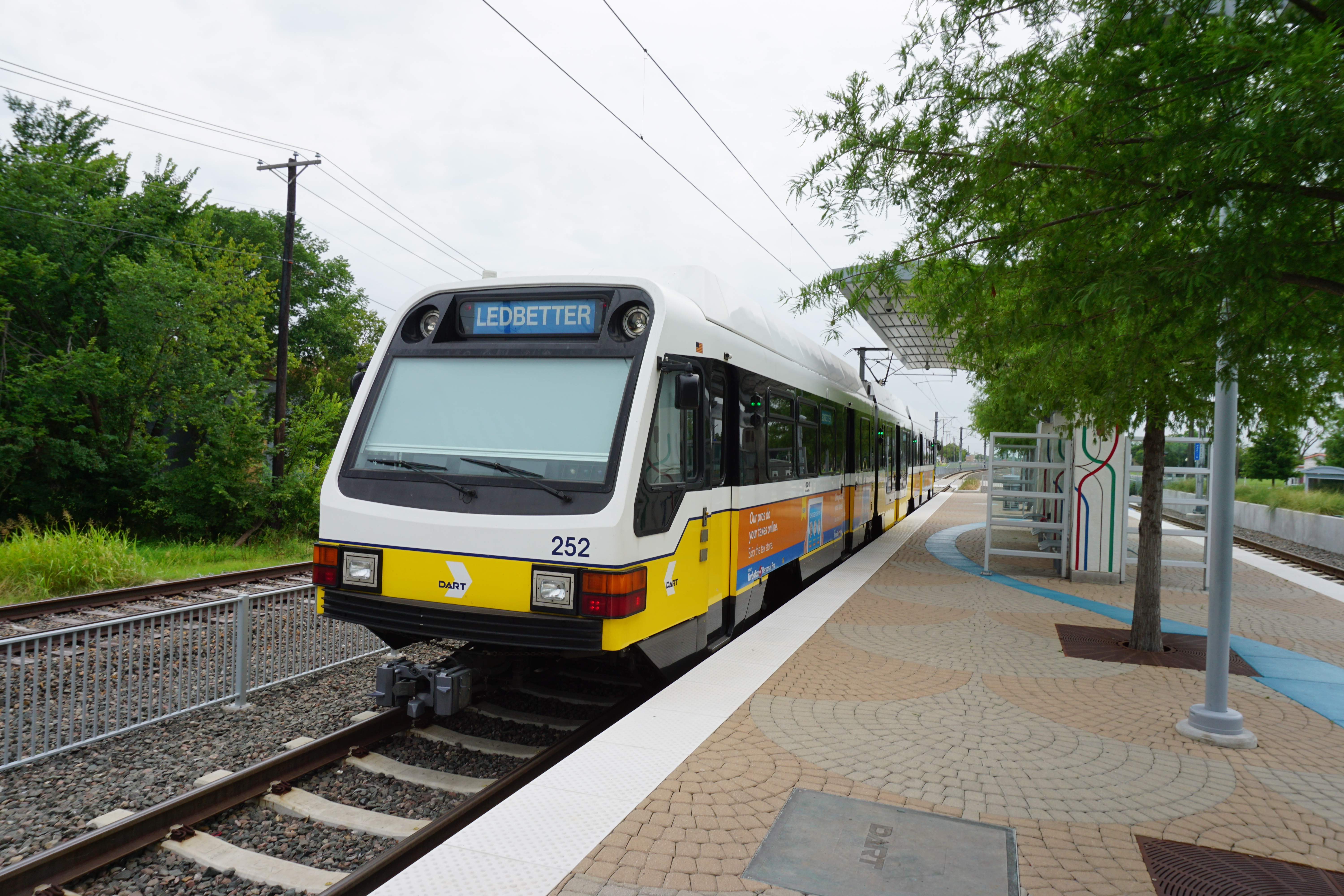 A DART Light Rail Blue Line train at Downtown Rowlett Station in Rowlett, Texas (United States).